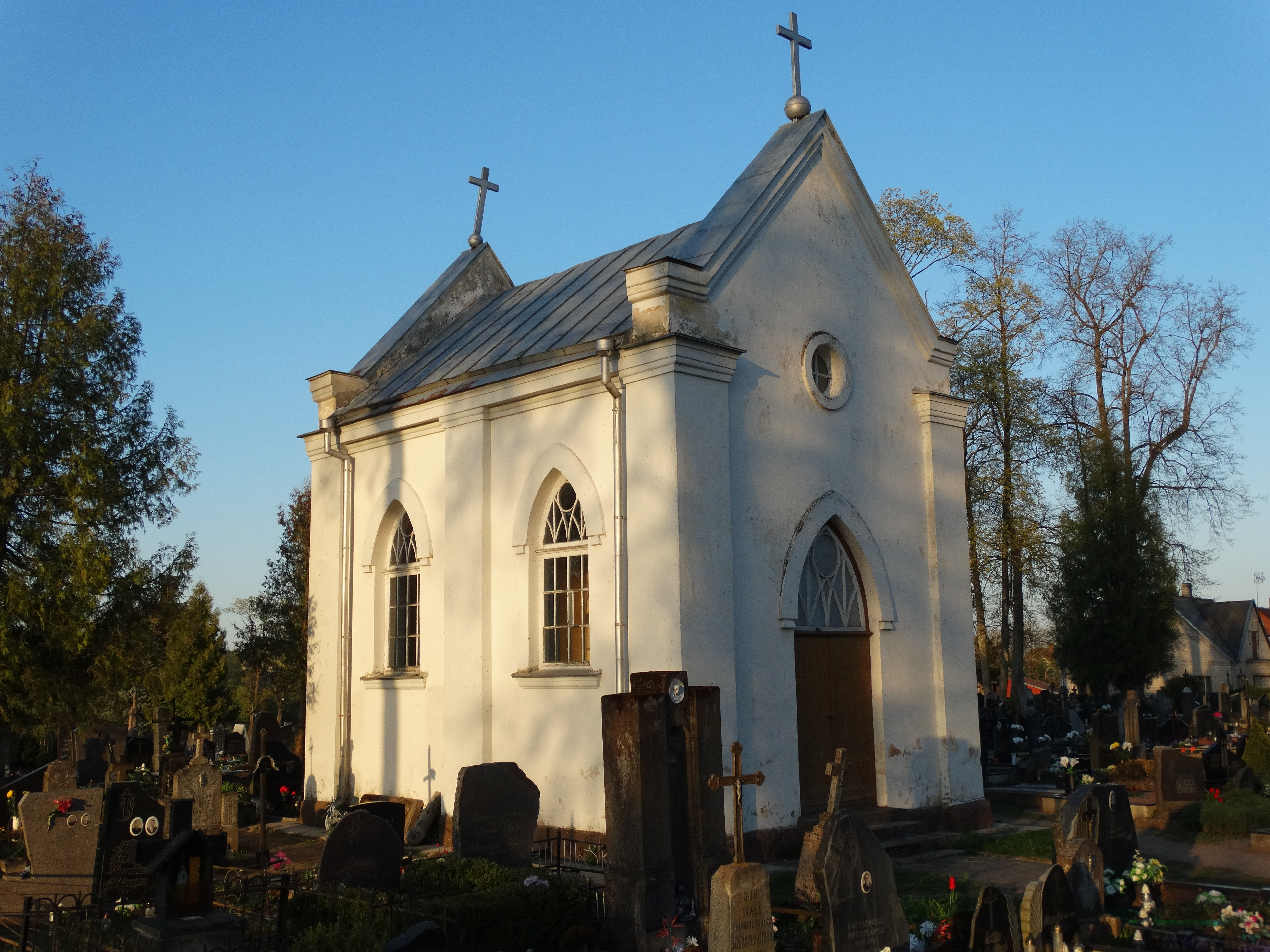 Chapel, Širvintos, Lithuania